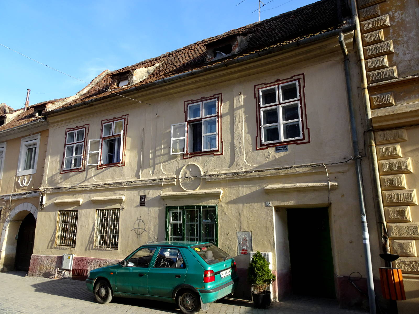 House on Postăvarului street in Brașov; house number 22